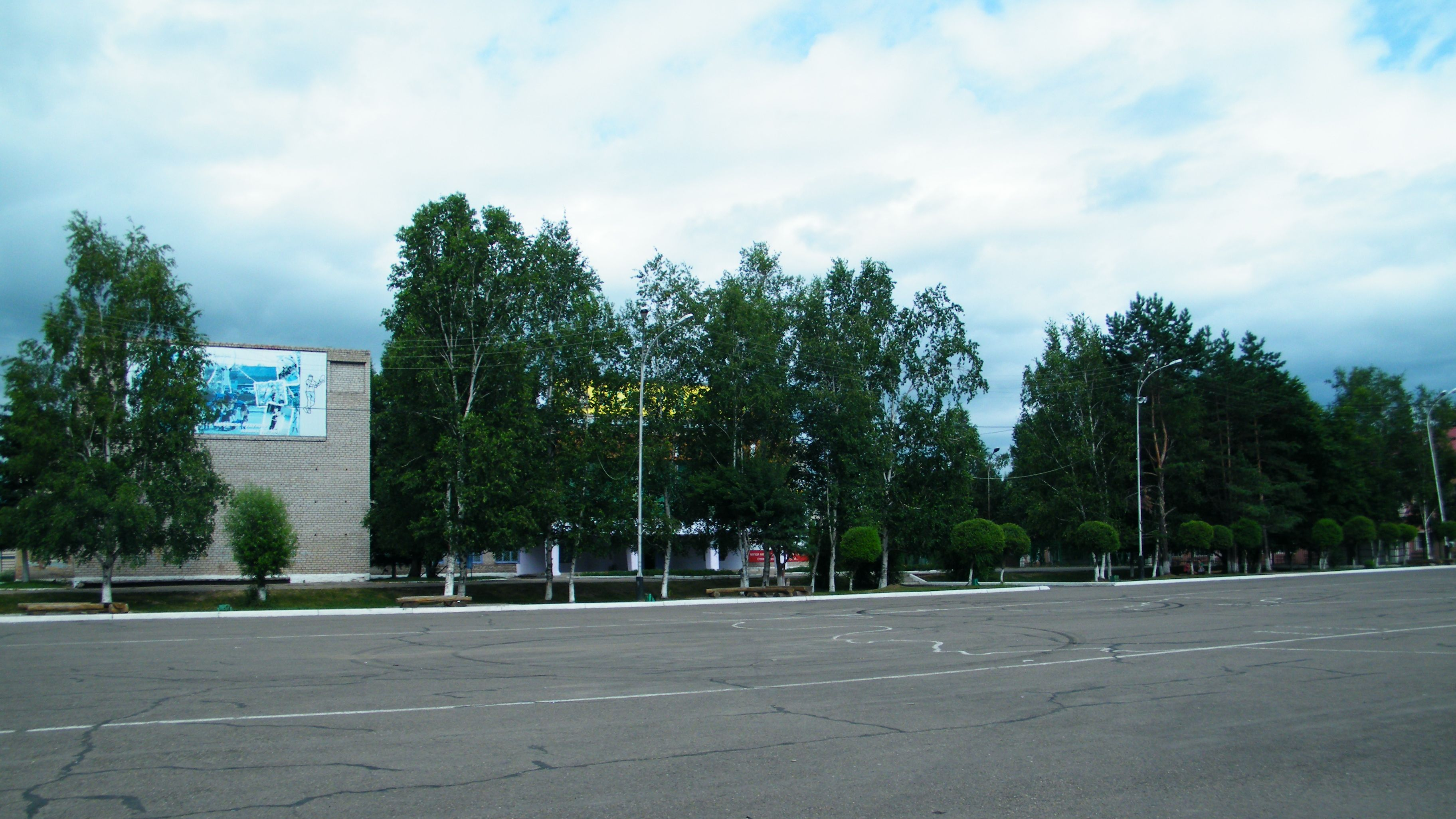 Chuguevka